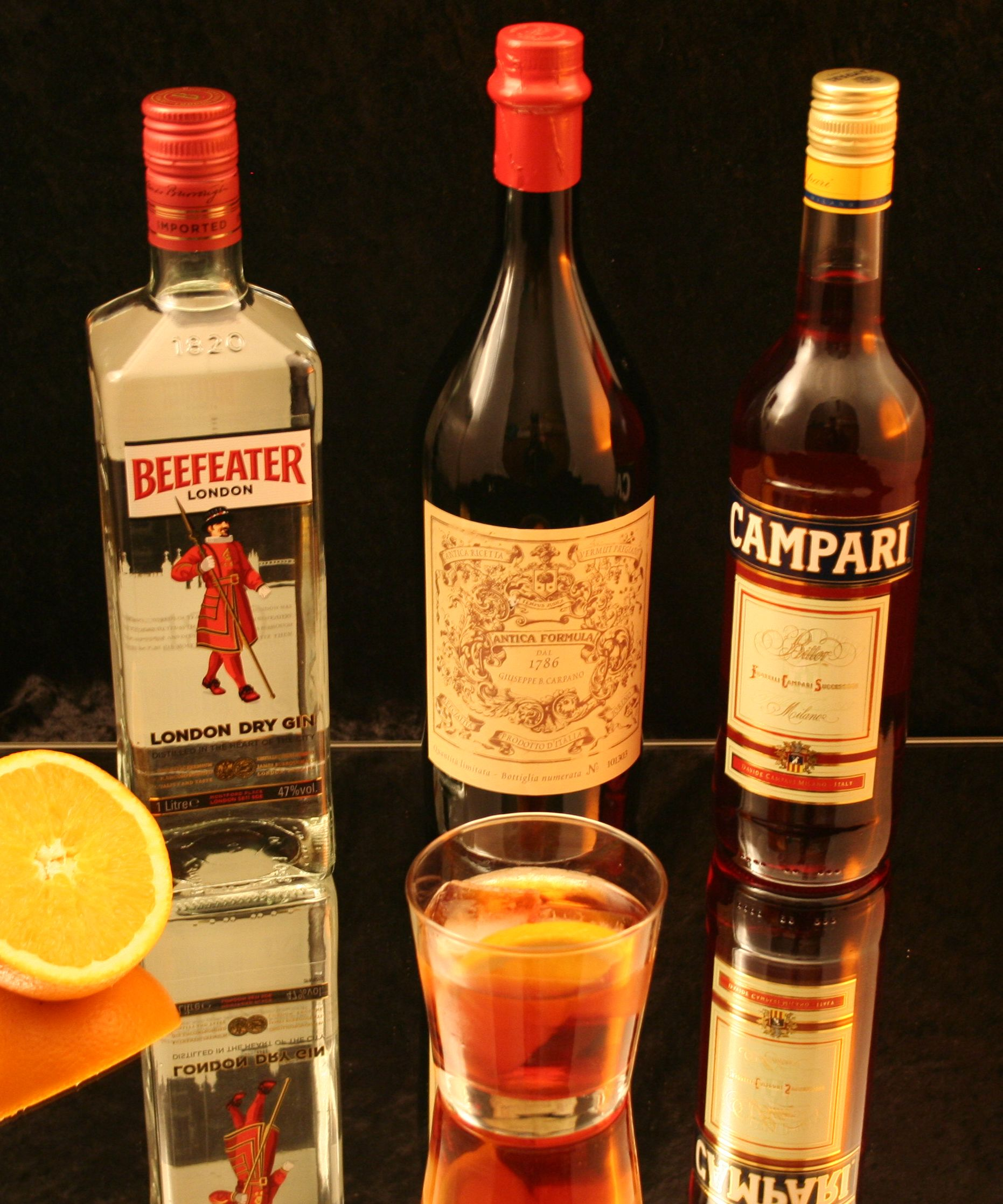 Negroni Cocktail with key ingredients (gin, Italian vermouth, Campari)